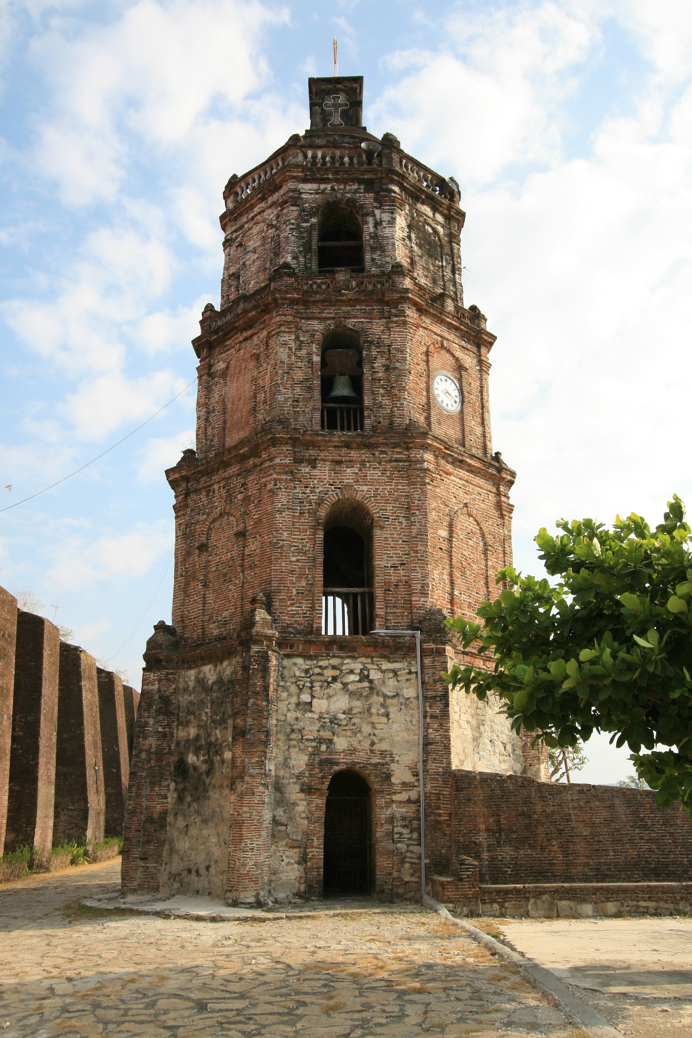 Leaning Bell Tower of Santa Maria Church, Santa Maria, Ilocos Sur, Philippines